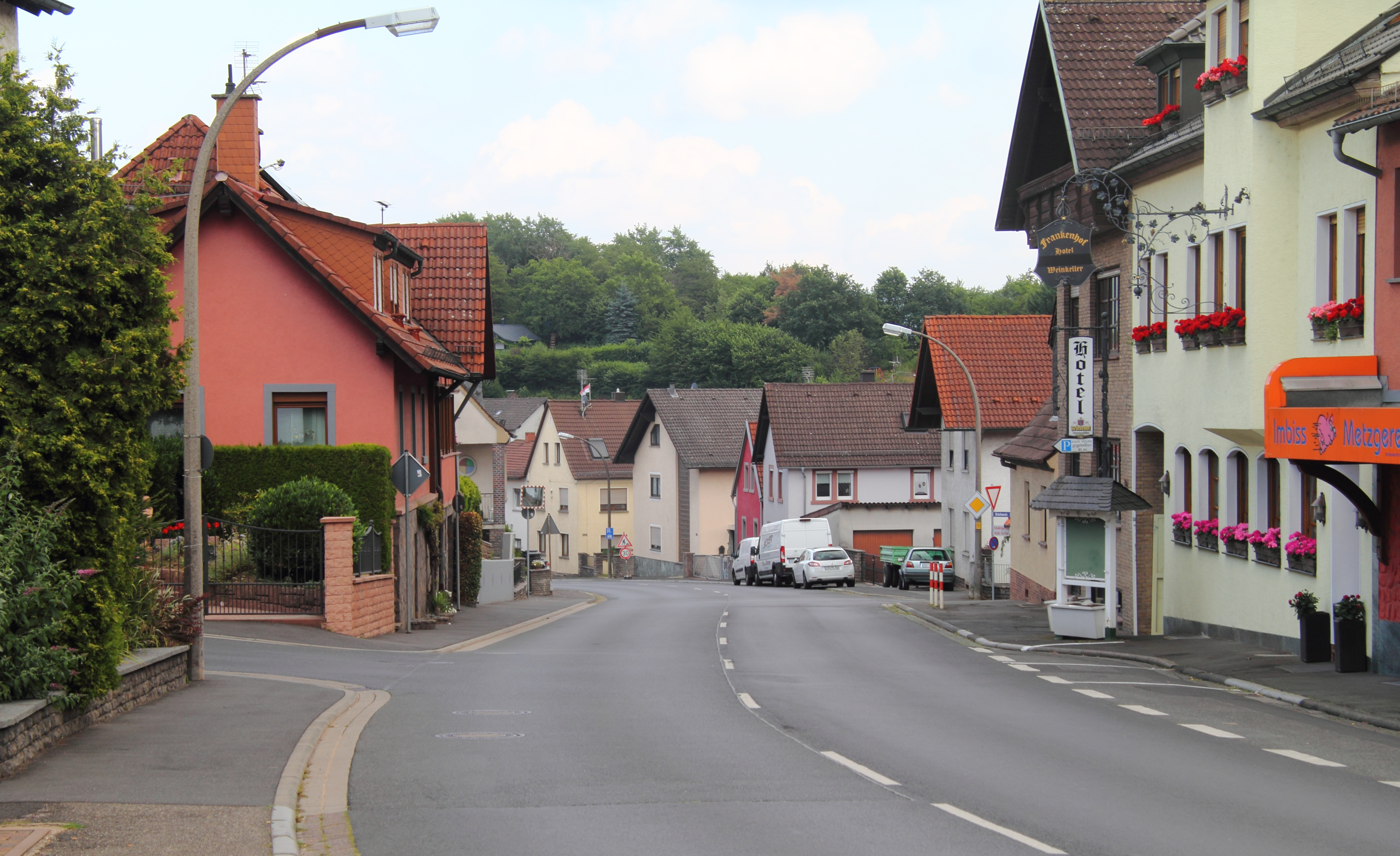 Bavaria, Germany: Grünmorsbach, part of the community of Haibach, Lower Franconia in the Aschaffenburg district